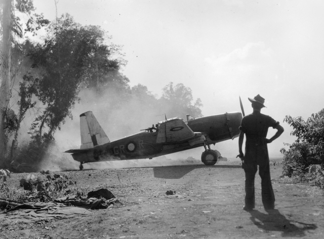 TSILI TSILI, NEW GUINEA. 1943-11-13. A VULTEE VENGEANCE DIVE BOMBER AIRCRAFT OF NO. 24 SQUADRON RAAF BEING WARMED UP BEFORE TAXIING OUT ONTO THE AIRSTRIP READY FOR TAKE OFF.